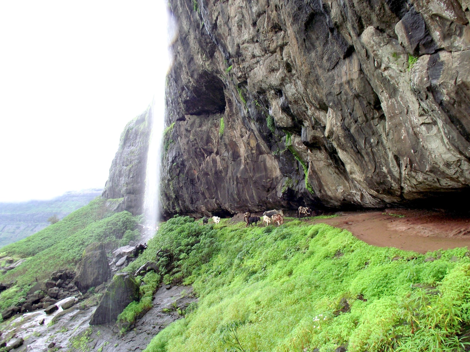 Cave & Temple